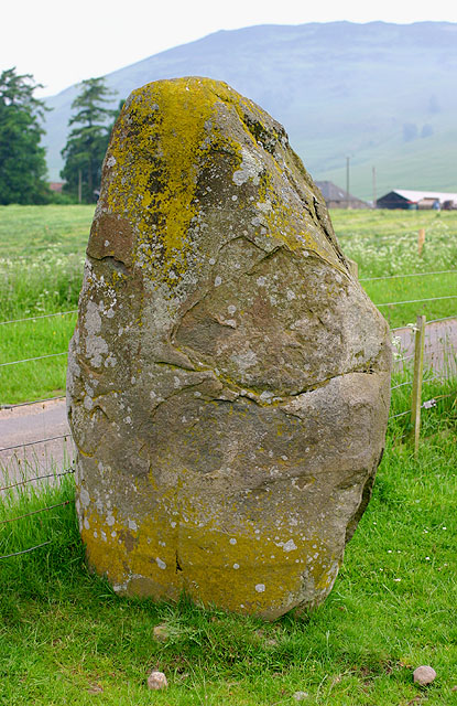 Witch's Stone Standing stone on the edge of the road near Waterloo.